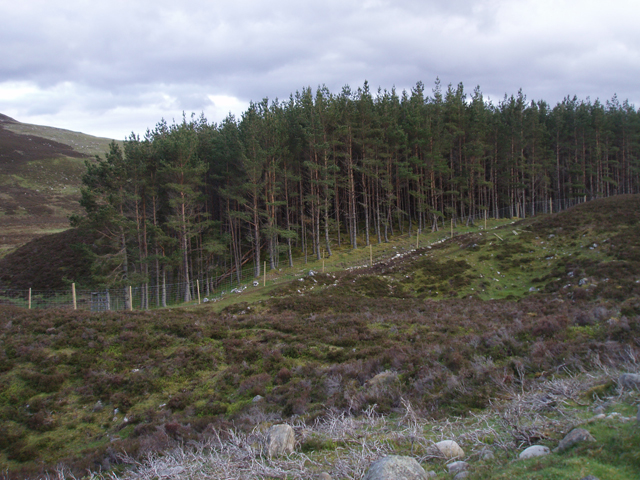 Plantation SW of Loch Gynack The NW corner of a Scots Pine plantation.